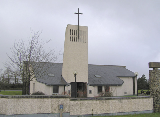 St Francis RC Church, Spamount. It is built in a modern style